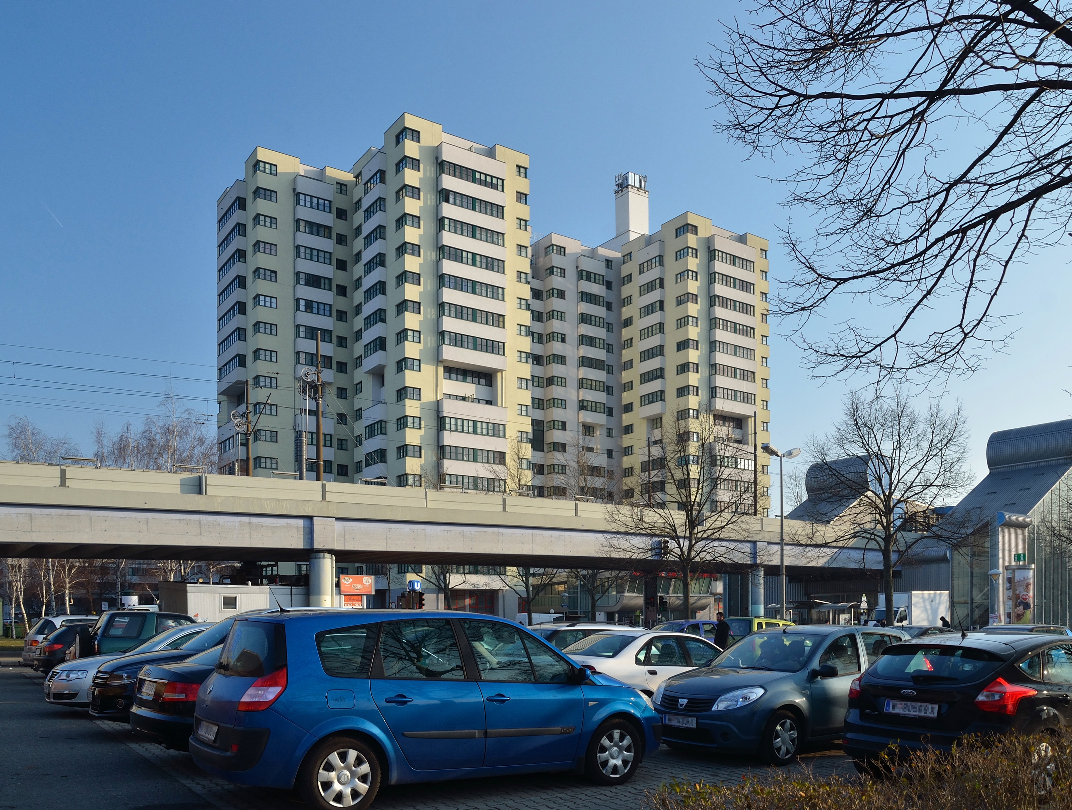 The high building of the residential buildings Am Schöpfwerk at Meidling, Vienna.